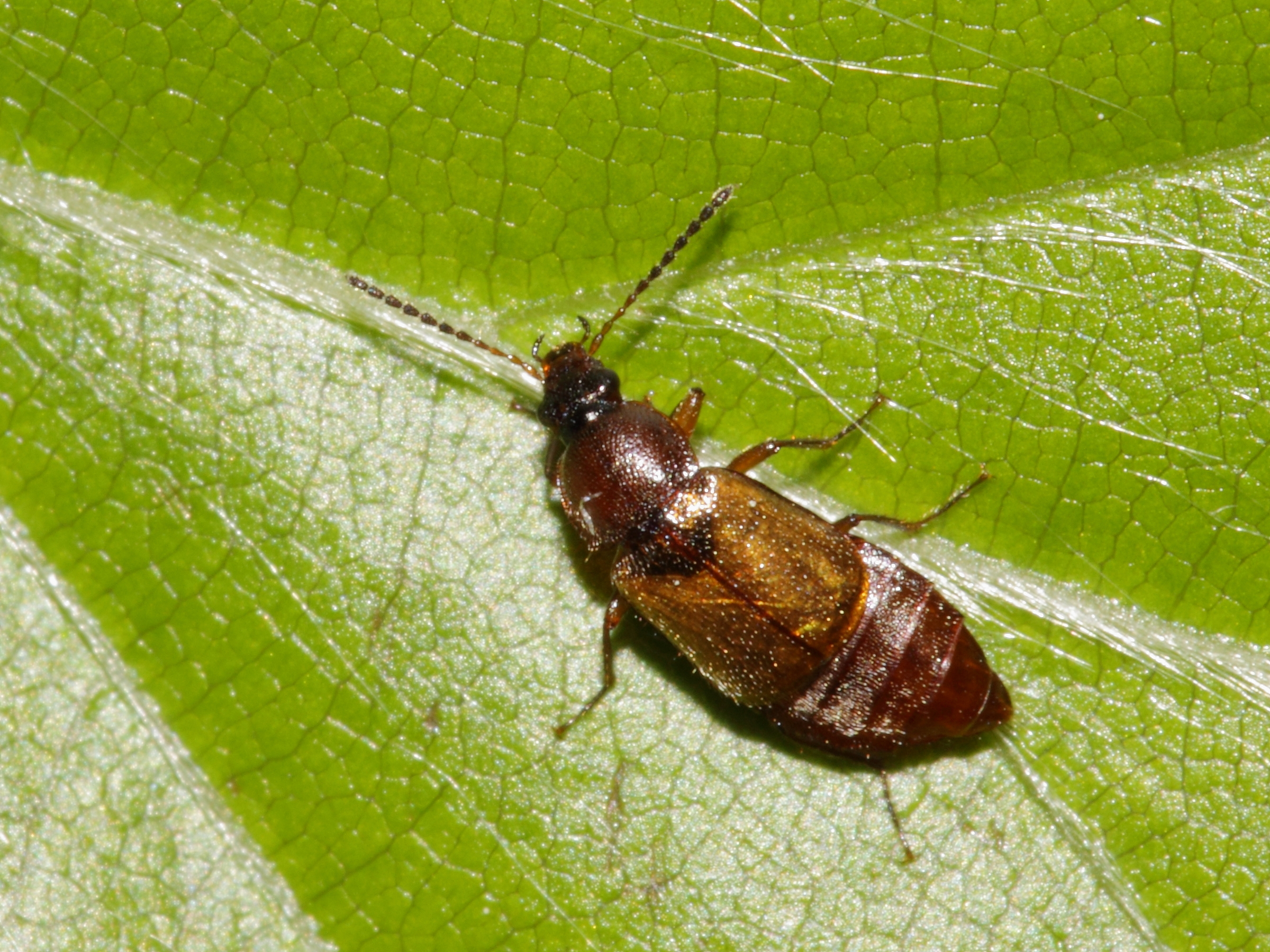 L: ~4-5mm Amphichroum canaliculatum ERICHSON, 1840 Genus: Amphichroum Subfamily: Omaliinae WS. MacLEAY, 1825 [det. Boris Büche, 2012, based on this photo] Family: Staphylinidae (Rove beetles, Kurzflügler) Superfamily: Staphylinoidea Infraorder: Staphyliniformia Suborder: Polyphaga Order: Coleoptera (beetles, Käfer) Subclass: Pterygota Class: Insecta (insects, Insekten) Subphylum: Hexapoda Phylum: Arthropoda SE-Germany, Bavaria, Bayrischer Wald: vic. Spiegelau, xxx m asl., 18.05.2012 IMG_0594